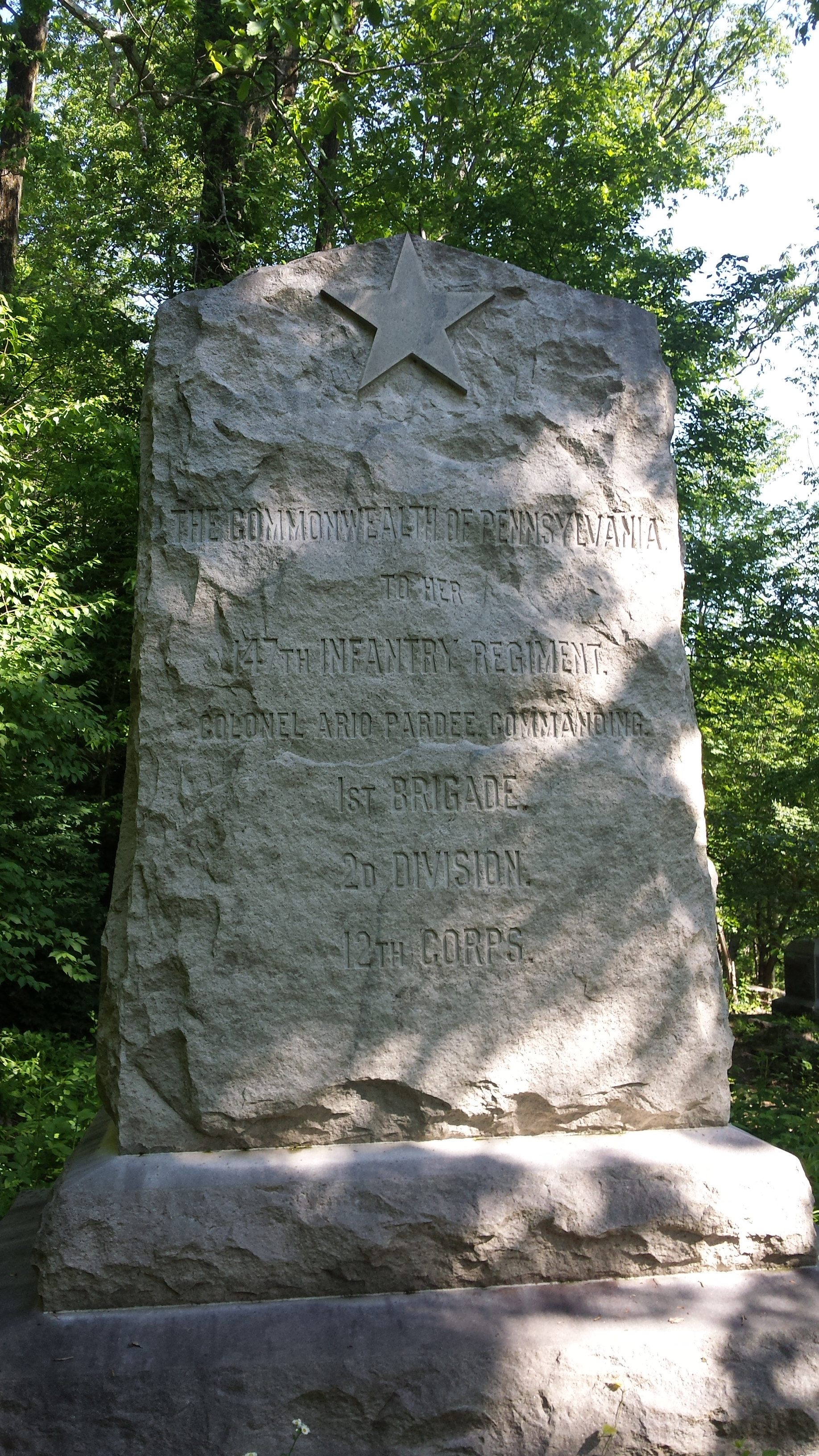 Ario Pardee, Jr. Chattanooga Lookout Mountain